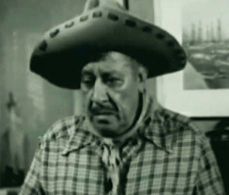 Chris-Pin Martin in Mesa of Lost Women - cropped screenshot